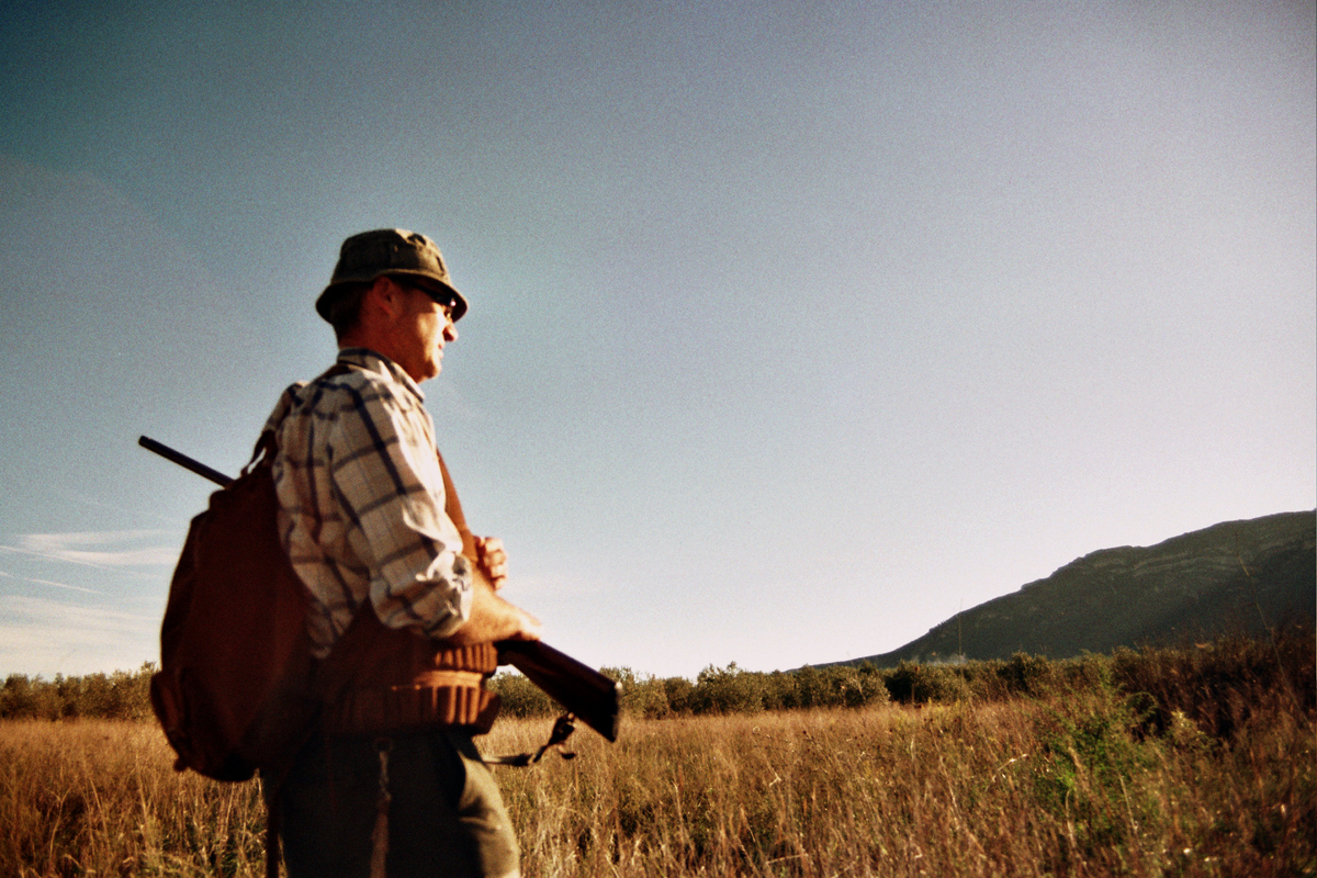 A hunter from Flickr.